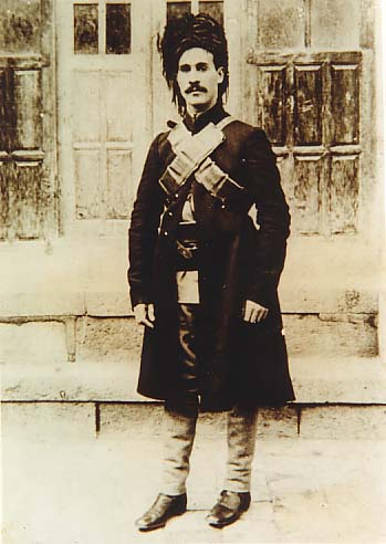 Simko